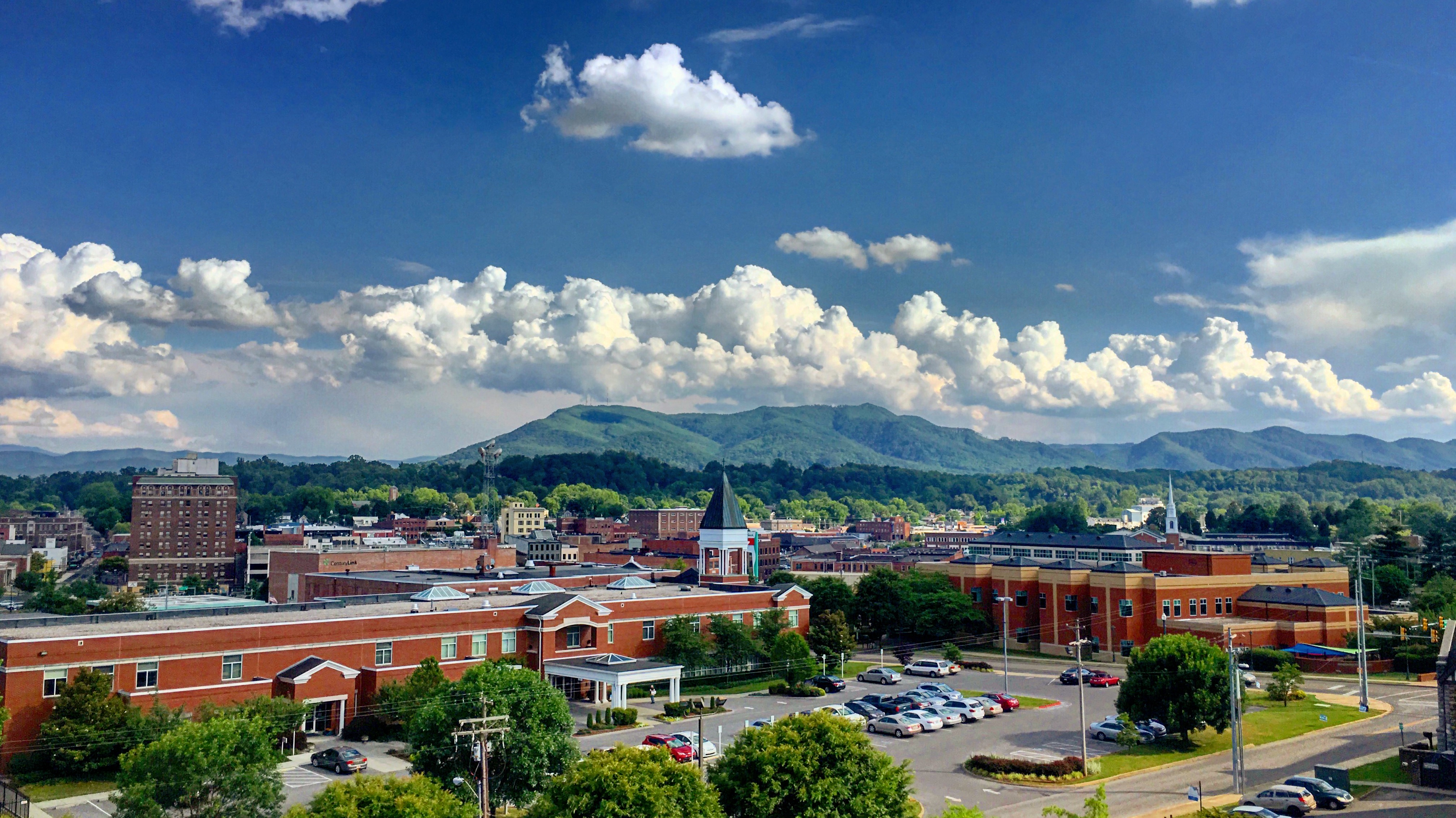 This is a photo of picturesque, downtown Johnson City Tennessee with Buffalo Mountain in the background.